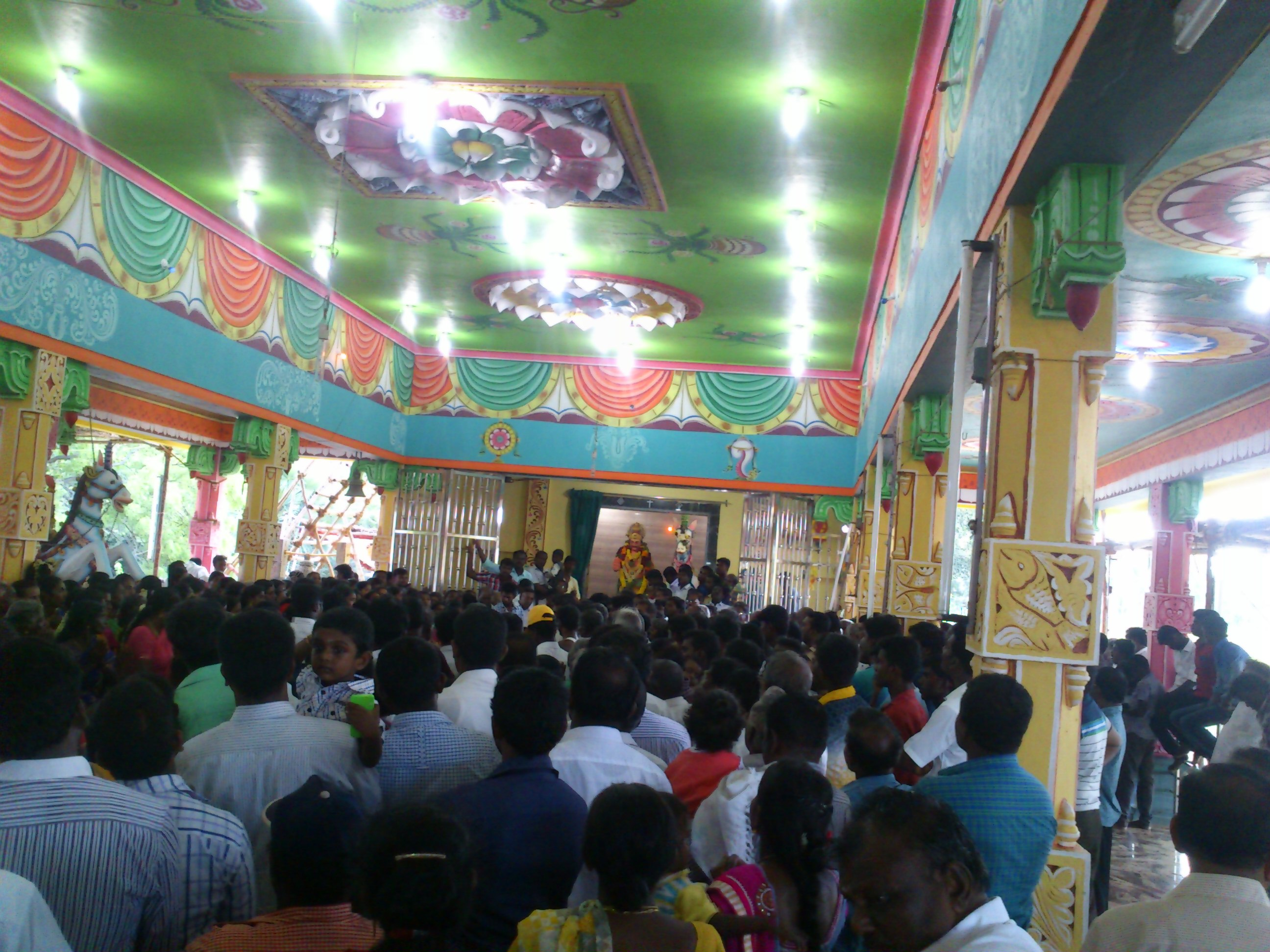 NEW TEMPLE